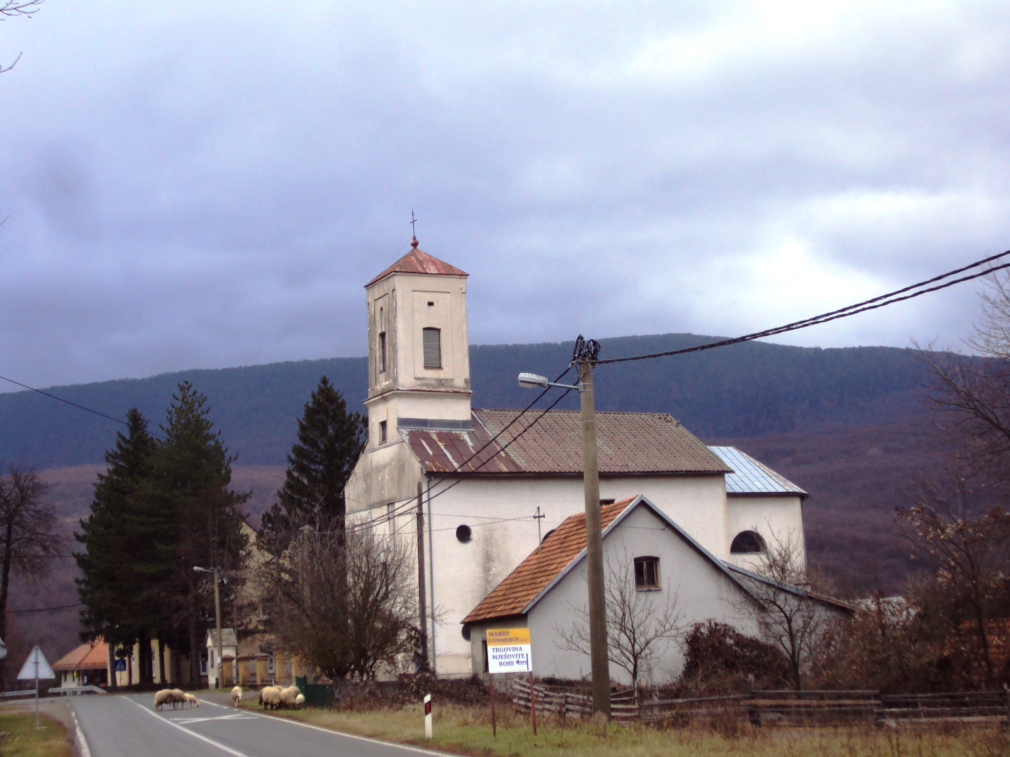 Church of st. George in Jezerane, Croatia